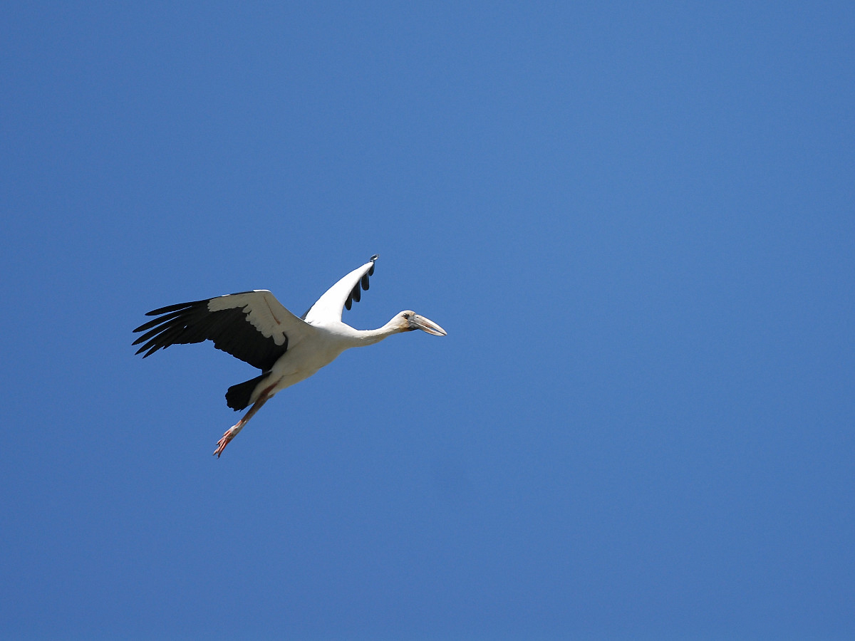 taken at Suvarnabhumi Int'l Airport, Bangkok, Thailand.